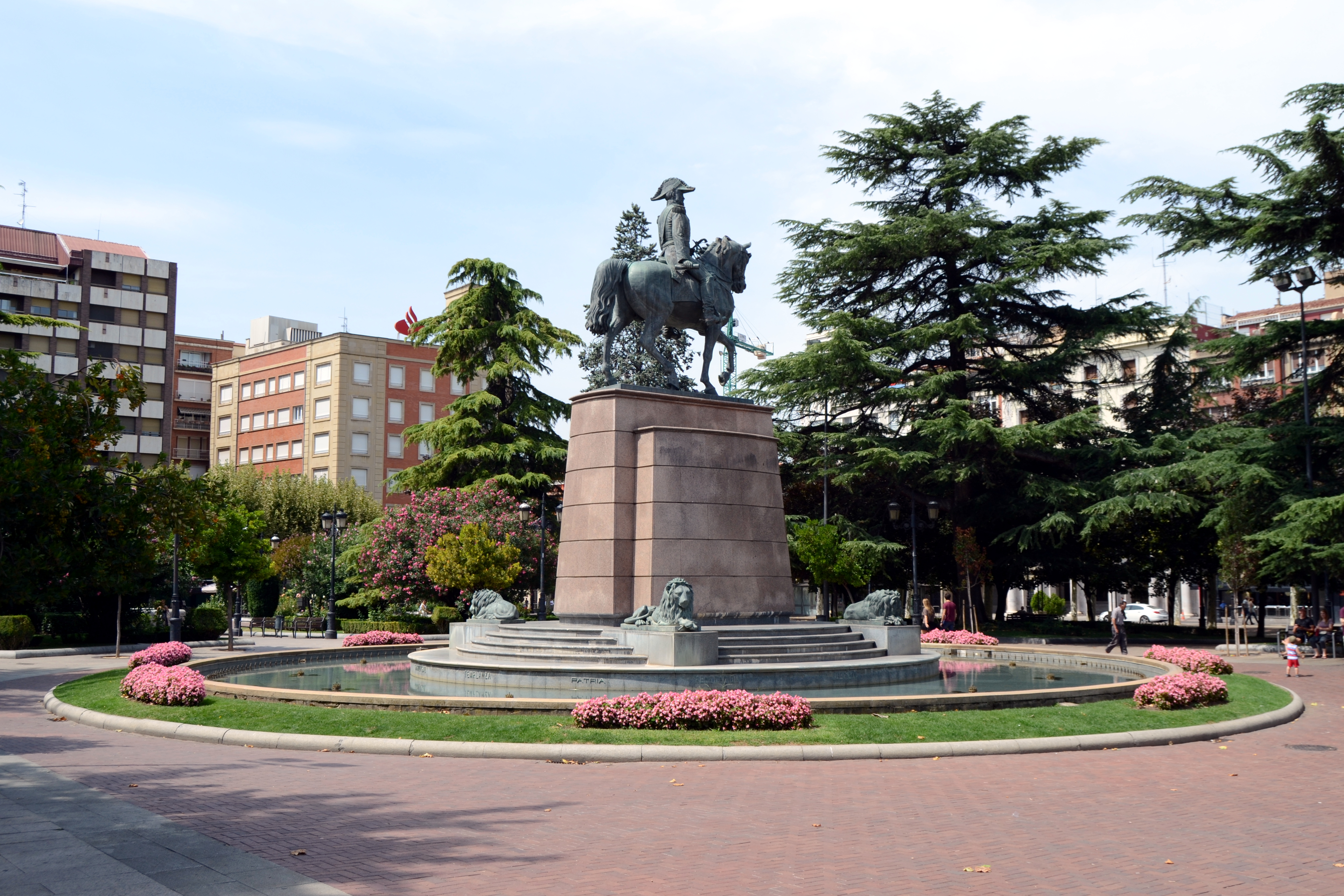 Espartero Fountain at Paseo Príncipe de Vergara ("El Espolón") at the heart of Logrono, Spain.